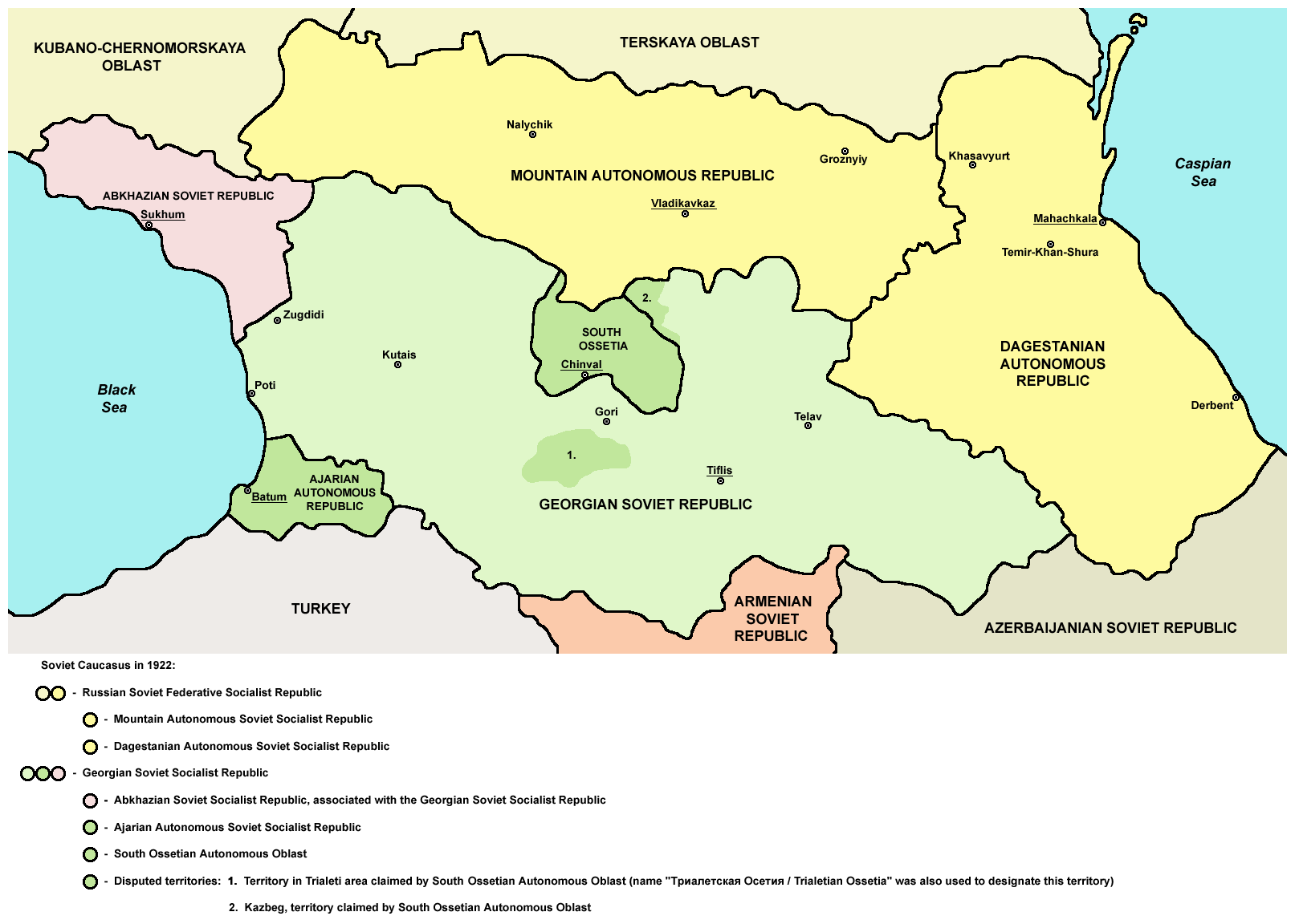 Northern part of Soviet Caucasus in 1922 - Mountain Autonomous Soviet Socialist Republic, Dagestanian Autonomous Soviet Socialist Republic, Georgian Soviet Socialist Republic, Abkhazian Soviet Socialist Republic, Ajarian Autonomous Soviet Socialist Republic, South Ossetian Autonomous Oblast and disputed territories claimed by South Ossetian Autonomous Oblast (Trialeti area / Trialetian Ossetia and Kazbeg).